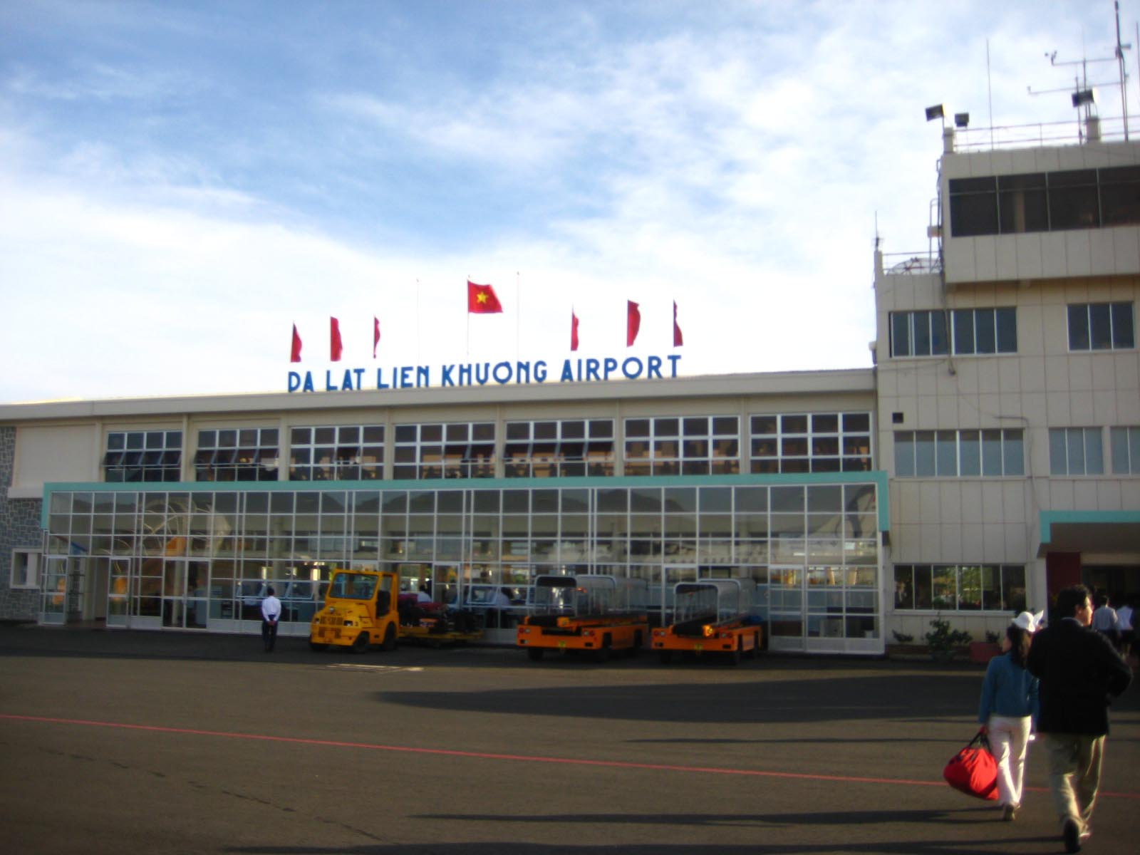 Lien Khuong airport in Lam Dong province, Vietnam.